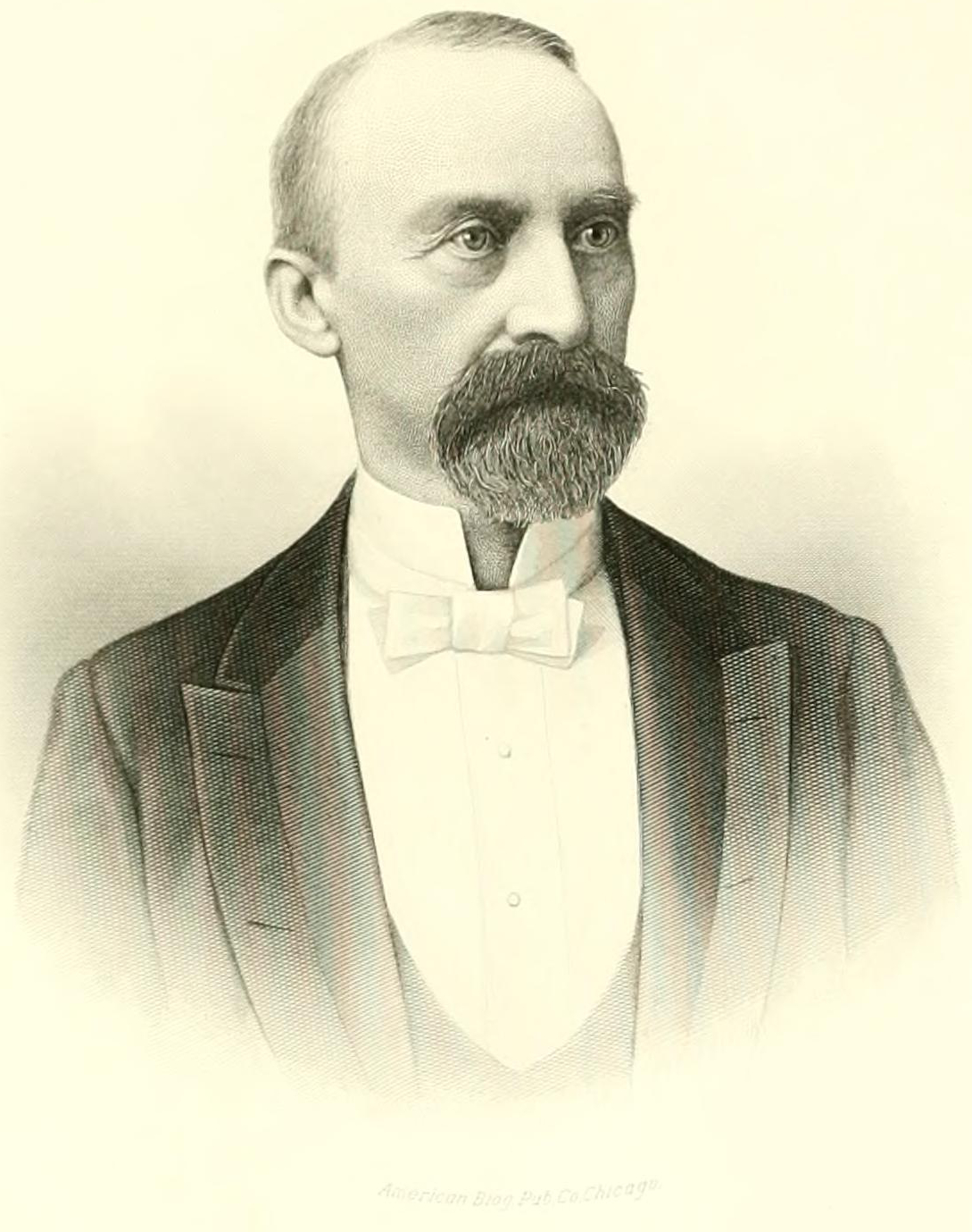 Loren Fletcher